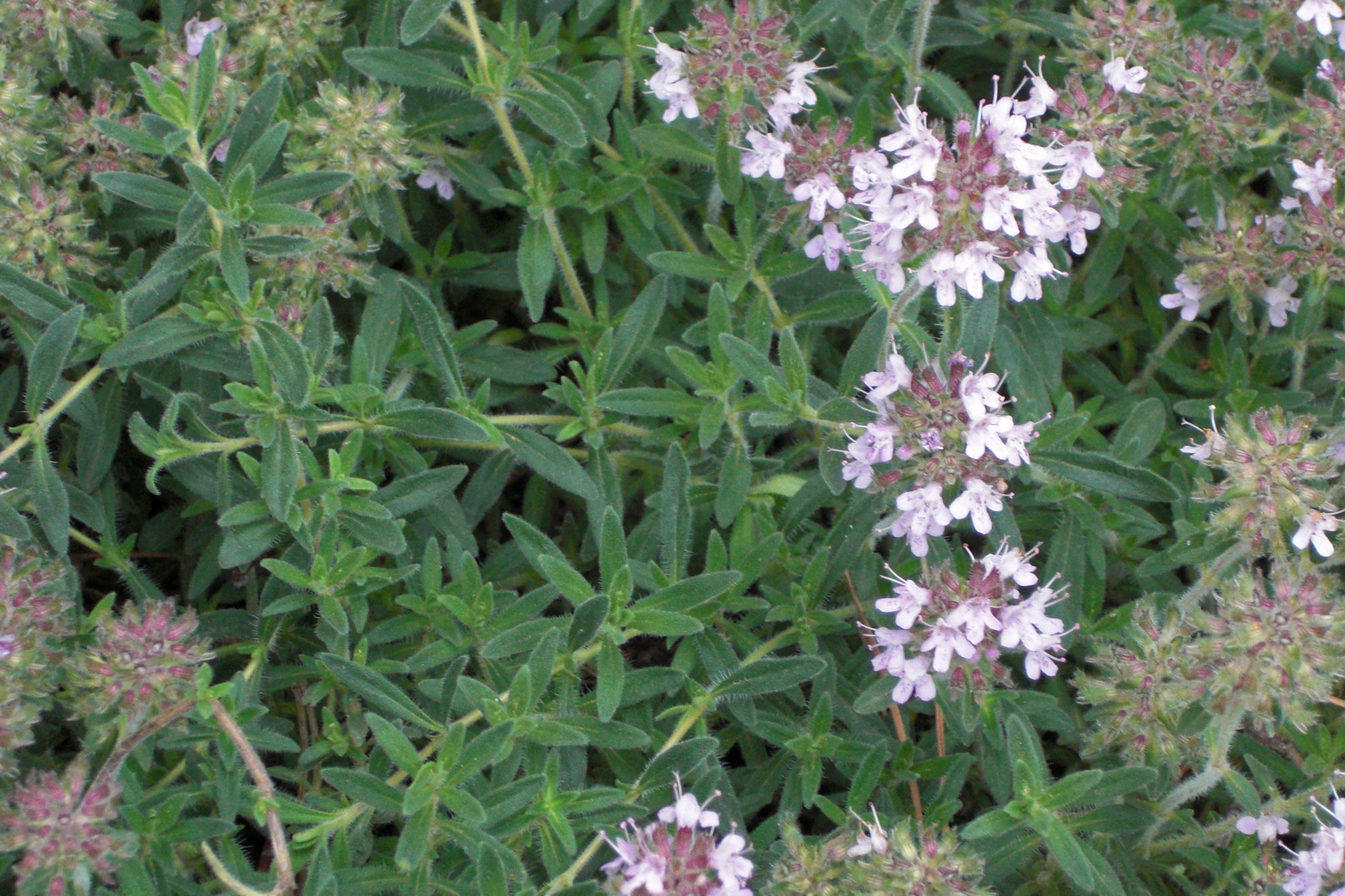 Thyme (Thymus glabrescens var. loevanyus), Mint family (Lamiaceae). Red Butte Garden, Salt Lake City, Utah.